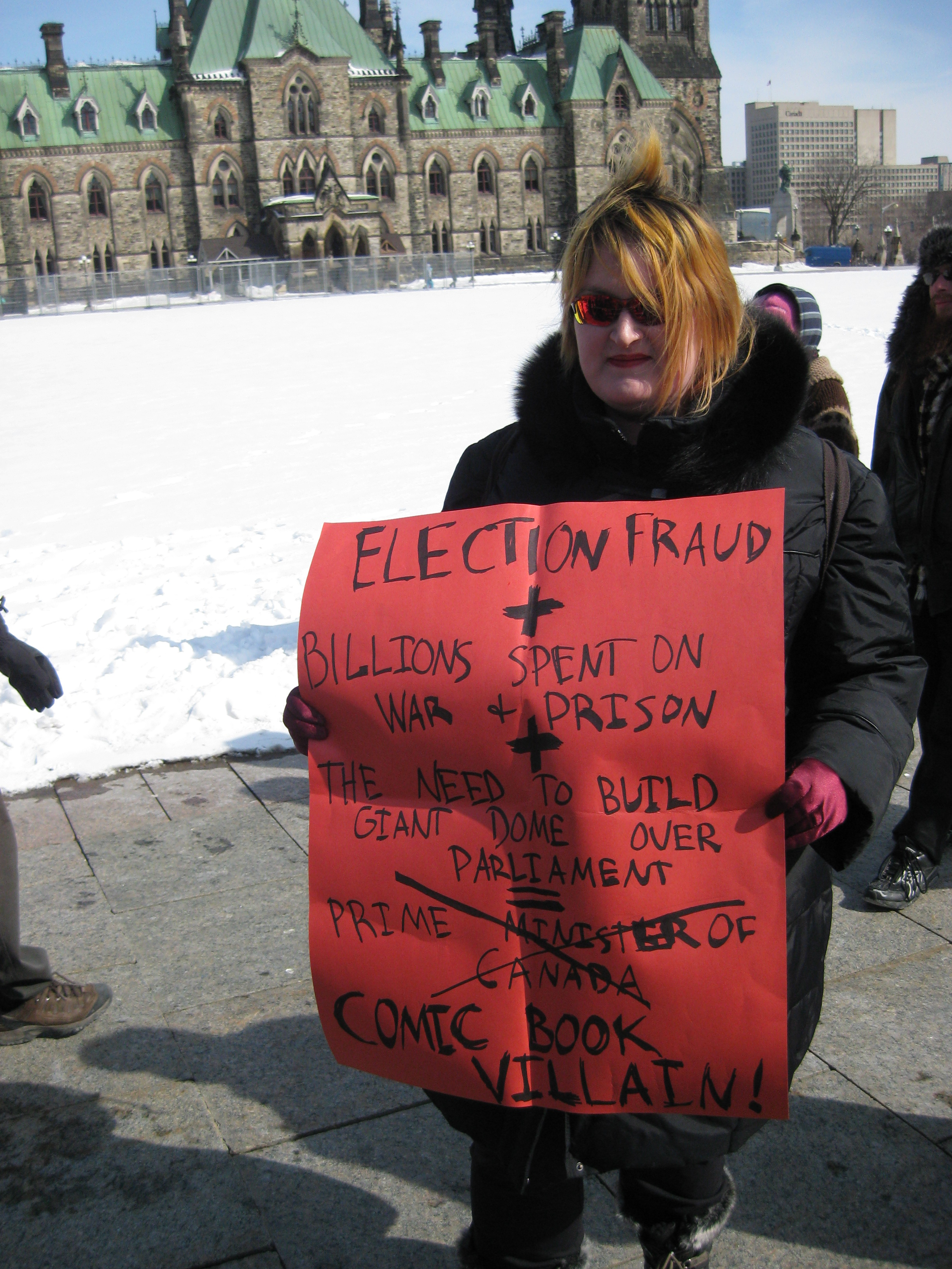 A female protester on Parliament Hill protesting the robocalls scandal in connection with the Canadian 2011 federal elections, with a sign reading, ELECTION FRAUD + BILLIONS SPENT ON WAR + PRISON + THE NEED TO BUILD GIANT DOME OVER PARLIAMENT = PRIME MINISTER OF CANADA COMIC BOOK VILLAIN!